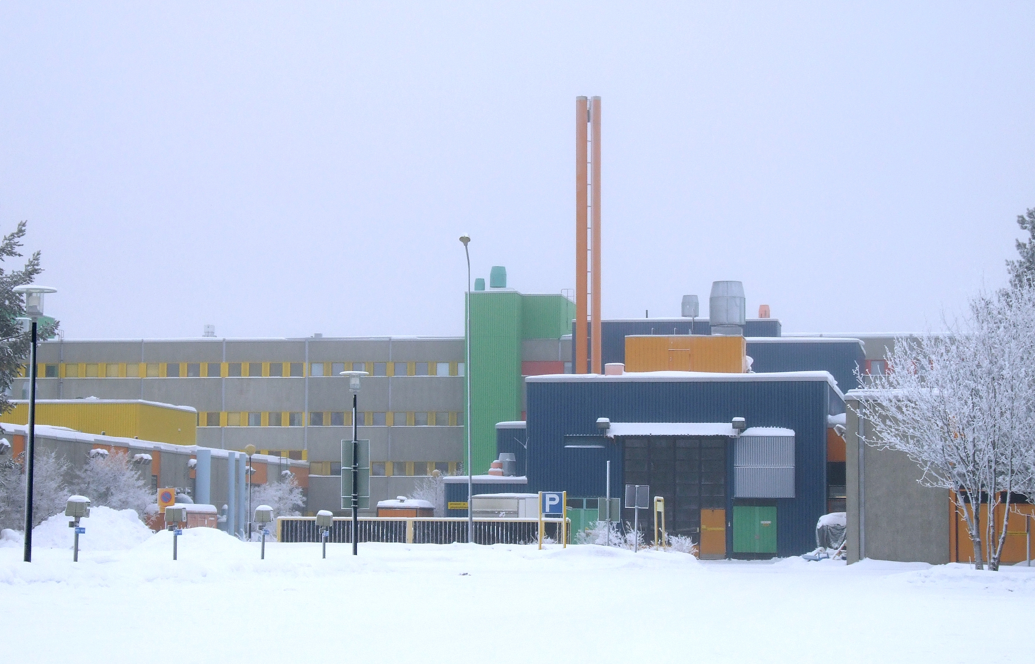 The Faculty of Technology on the Linnanmaa campus, University of Oulu, Finland. The Linnanmaa campus is located about 6–7 kilometres north of the Oulu city centre. The first phase of the campus has been built in 1973. The designer, architect Kari Virta, won the nordic architecture competition that was organized 1968. Weather: −5 °C.